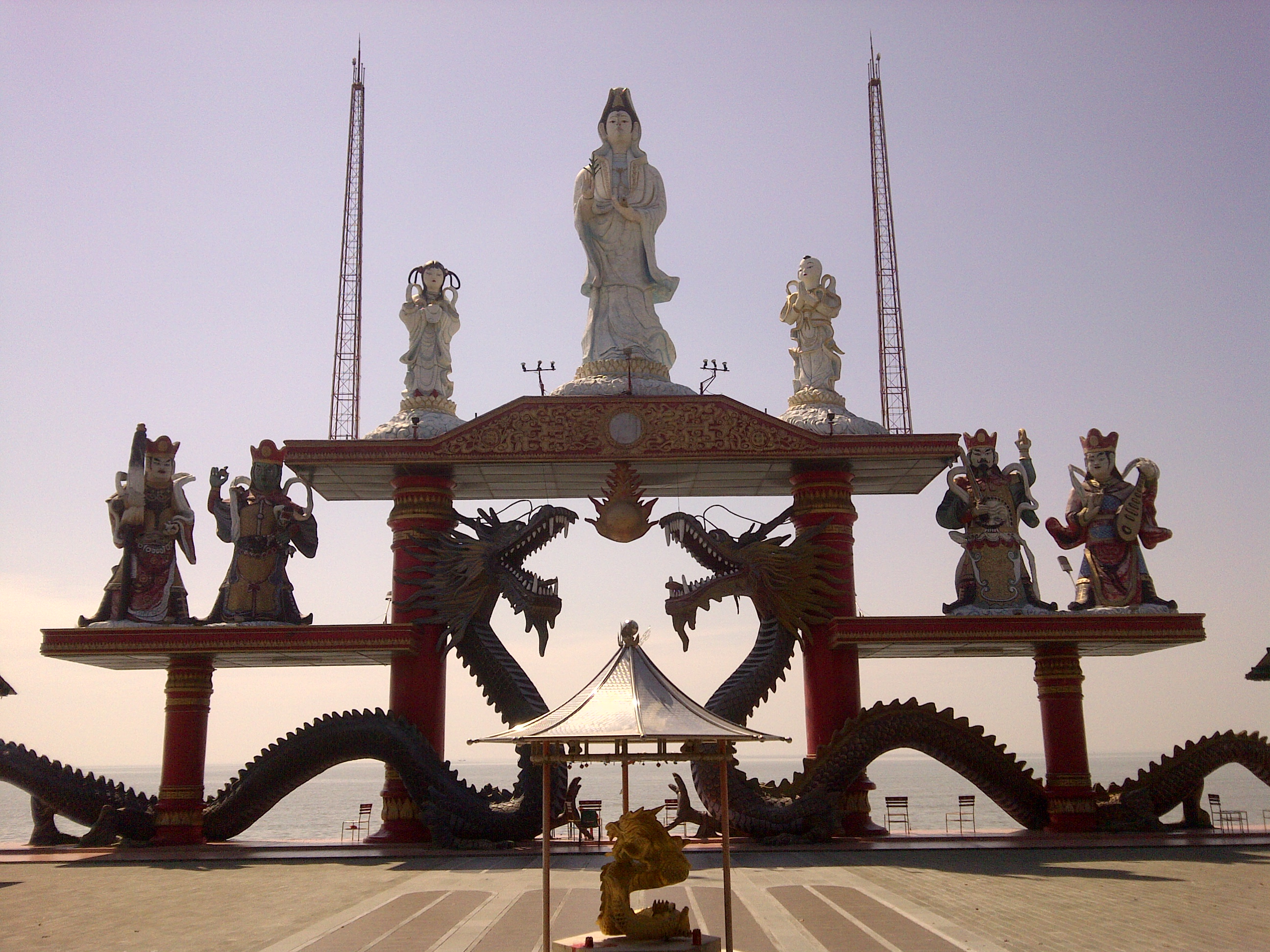 Guan Shi Yin Bodhisattva statue flanked by Nagakanya and Sudhana (top) / Bottom level shows 4 Heavenly Kings of Sanggar Agung Temple, Surabaya-Indonesia